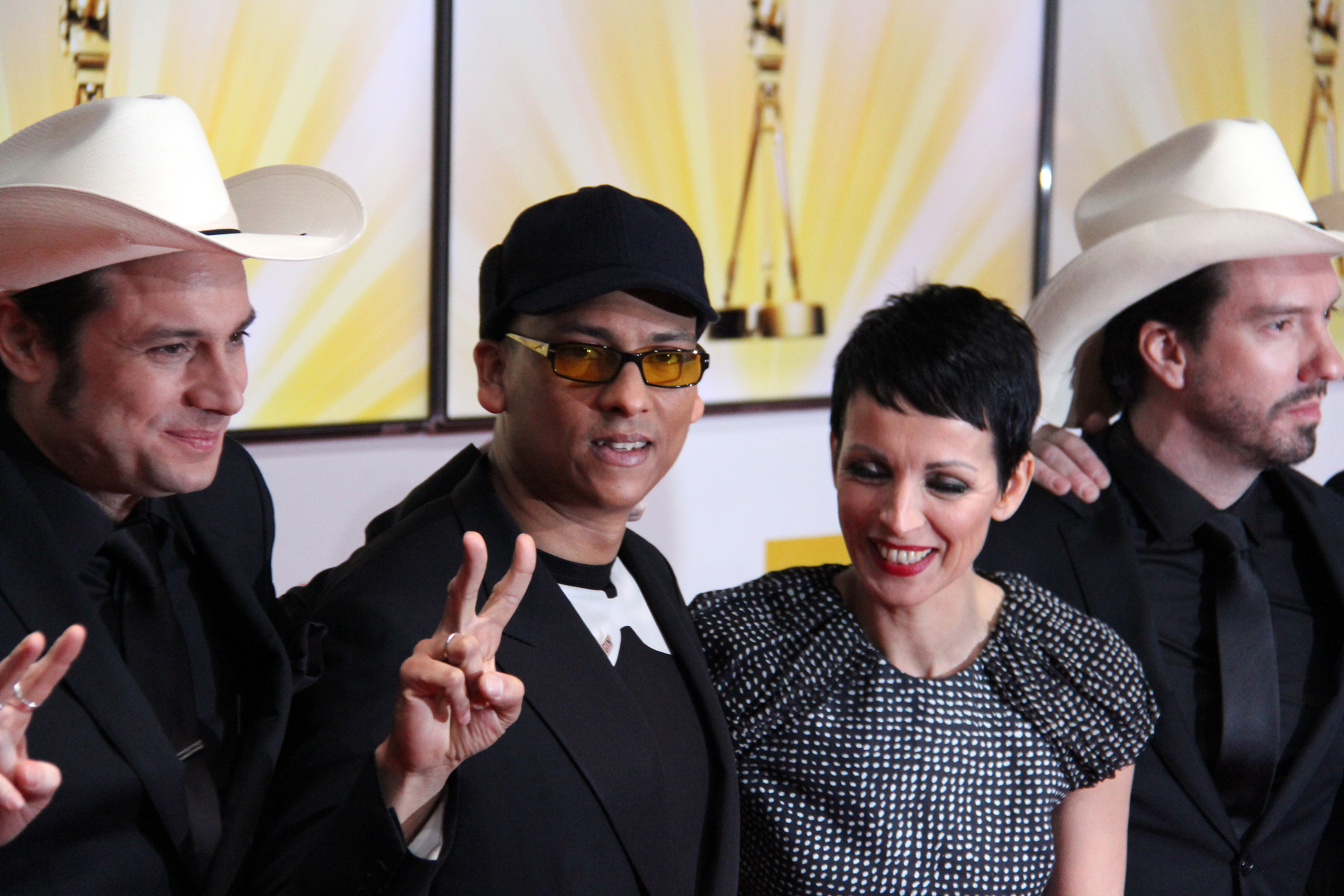 Das Coach-Team von The Voice of Germany (bei der Goldenen Kamera 2012